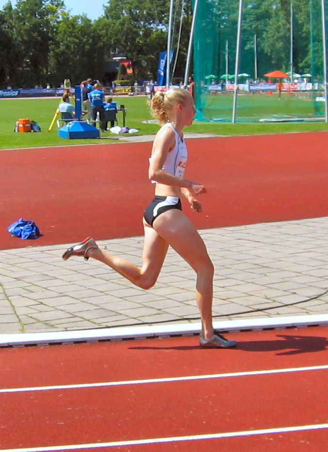 Machteld Mulder at the Gouden Spike Meeting '09 in Leiden, The Netherlands